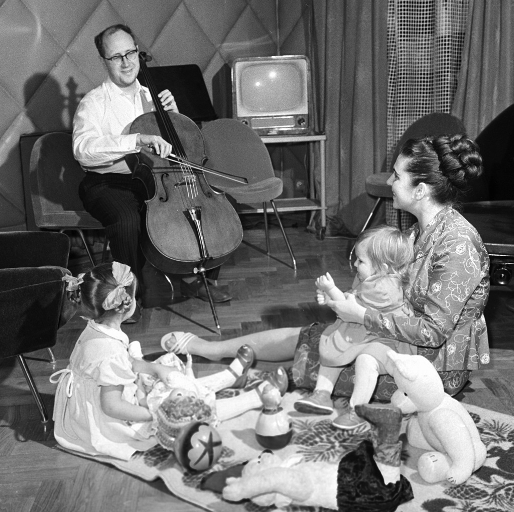 “Opera singer Galina Vishnevskaya and cellist Mstislav Rostropovich with their daughters at home”. Opera singer Galina Vishnevskaya (right) and her husband-the world-renowned cellist Mstislav Rostropovich (left) - with their daughters at home.